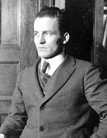 Thomas J. Watson in 1917. Taken by a Chicago Daily News, Inc., photographer in 1917. Chicago Daily News negatives collection, Chicago Historical Society, #DN-0067708